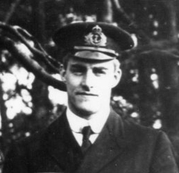 Detail from photograph of Lt Charles Breese RN (later Air Vice-Marshal and RAF).